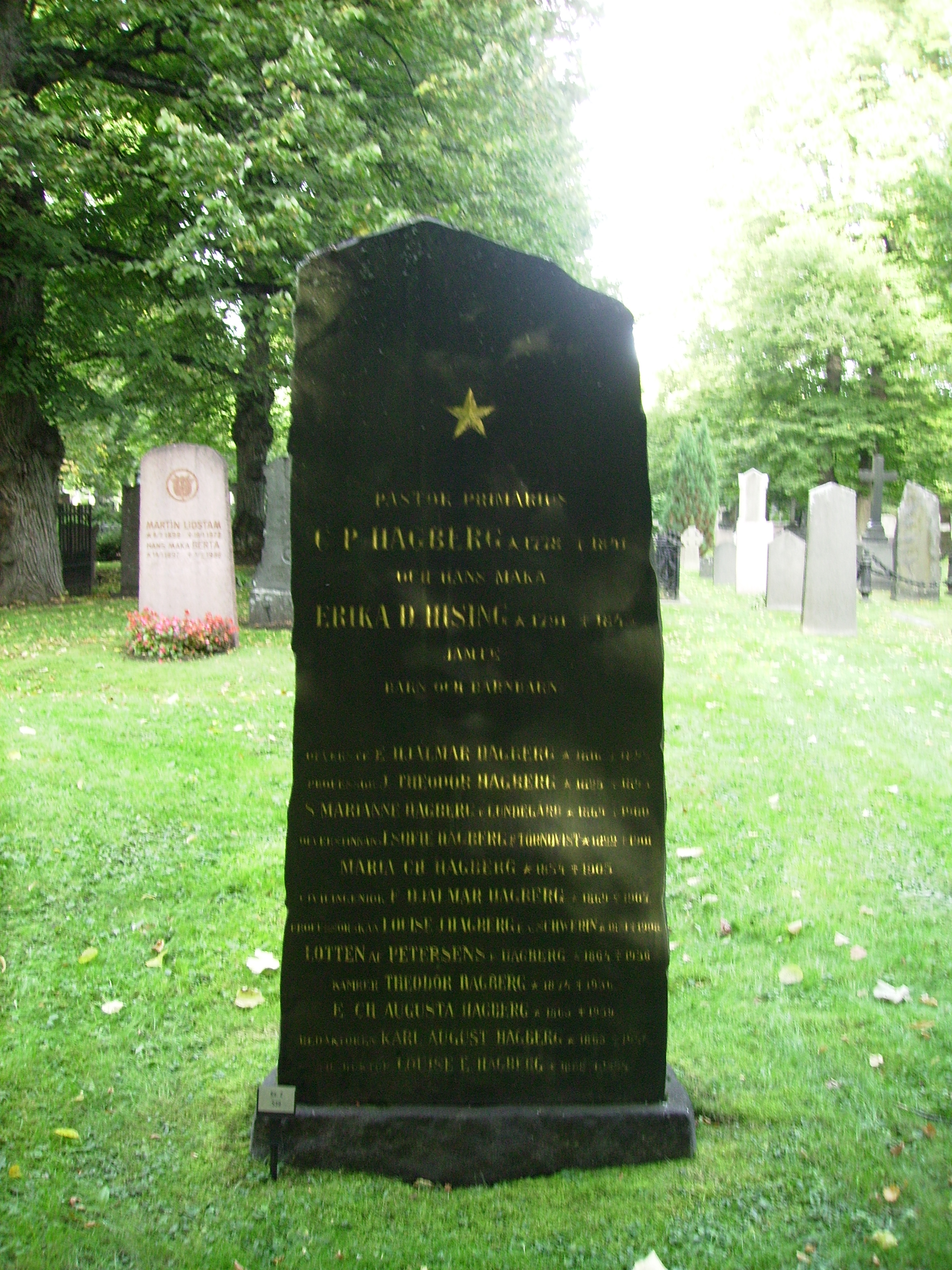 Picture of Carl Peter Hagberg's grave at Norra Begravningsplatsen in Solna. A Swedish clerical person. (Pastor primarius in Stockholm.)